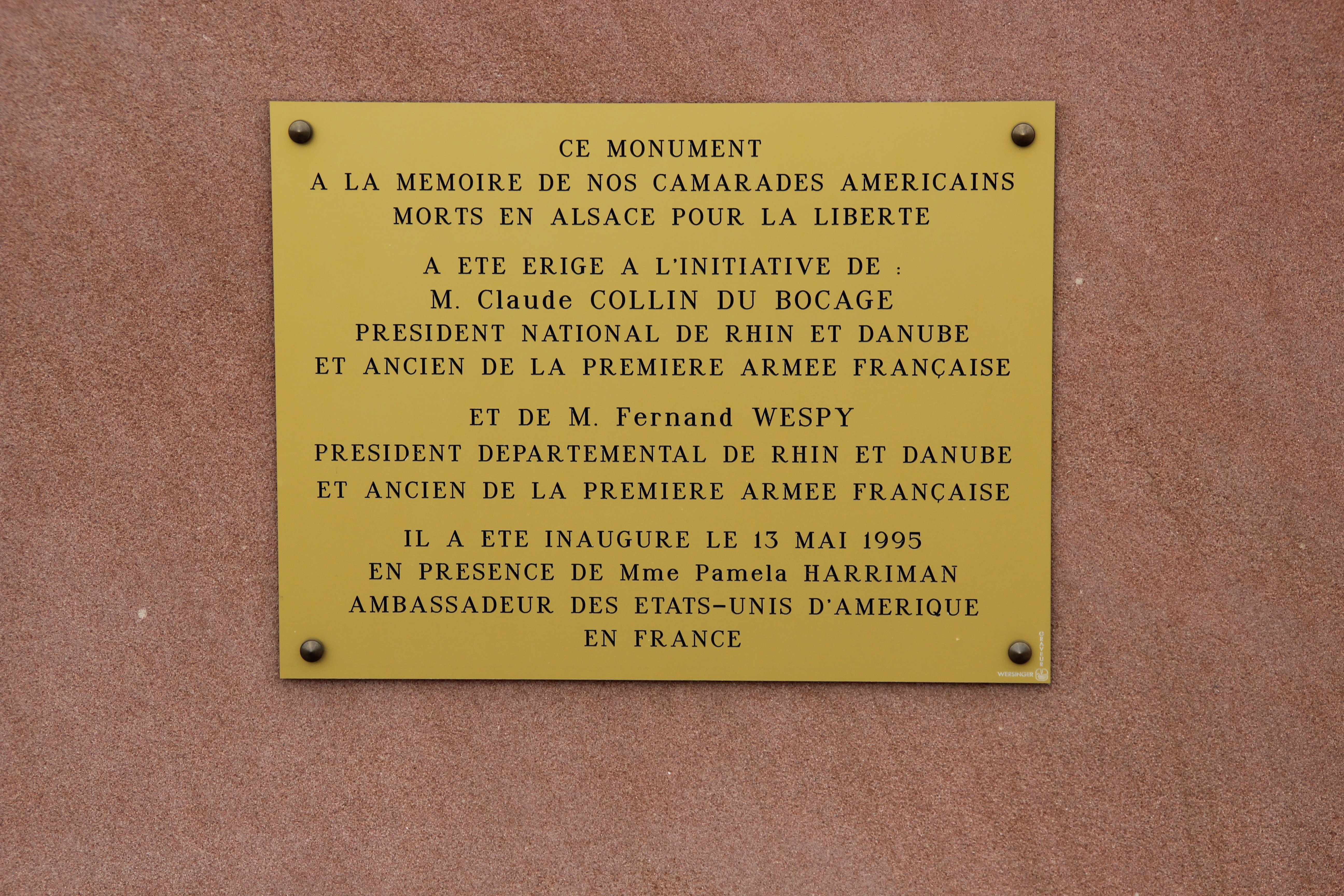 Sign at the Sigolsheim War Cemetery in April, 18th 2013.